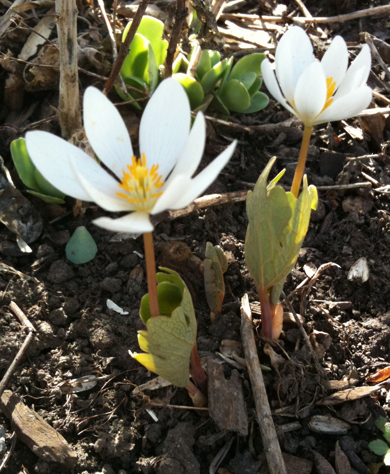 Bloodroot. Single plant shown in early spring when in bloom, while leaves are still clasping around the stem.